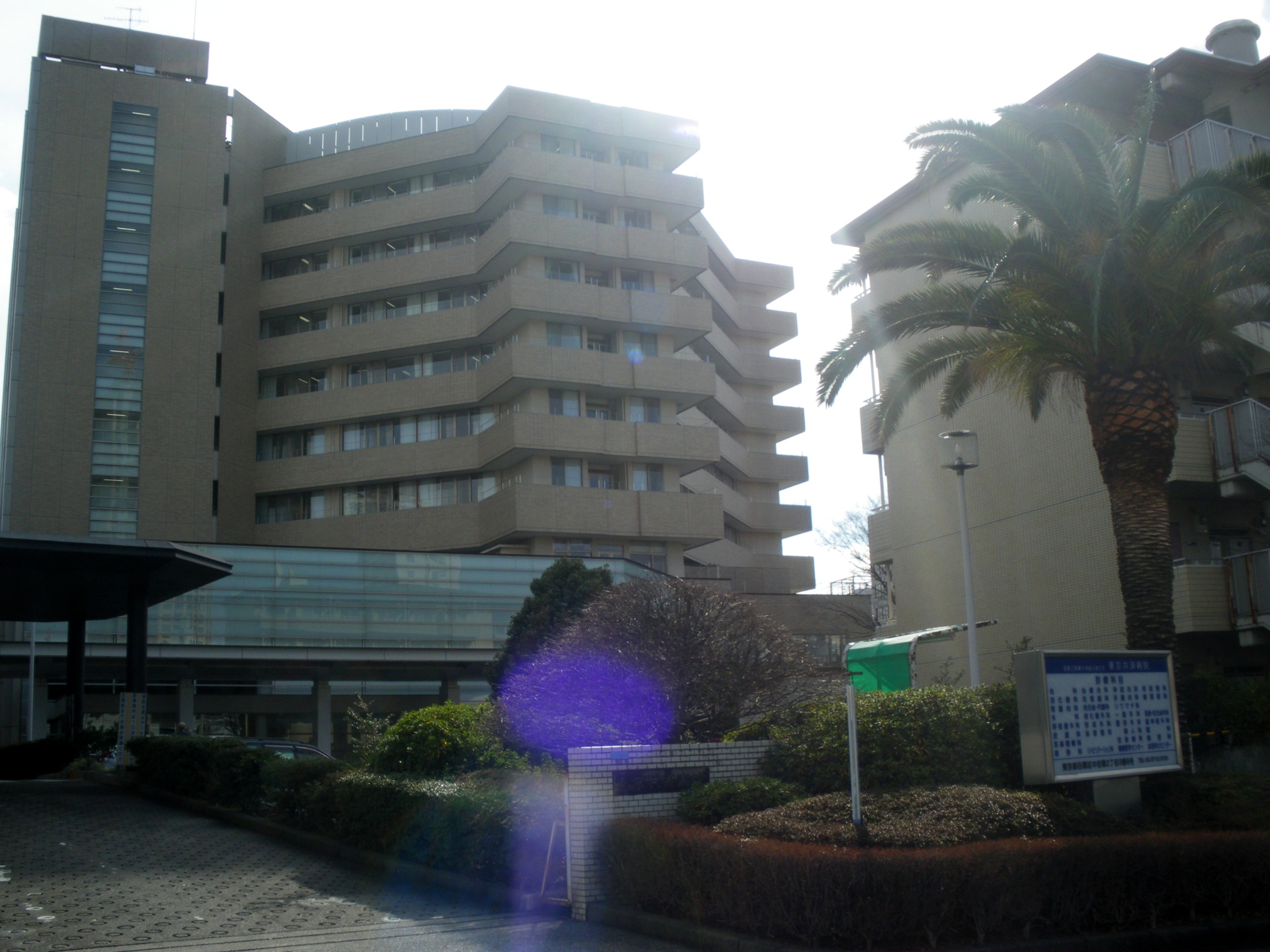 Tokyo Kyosai Hospital(Nakameguro,Meguro,Tokyo)